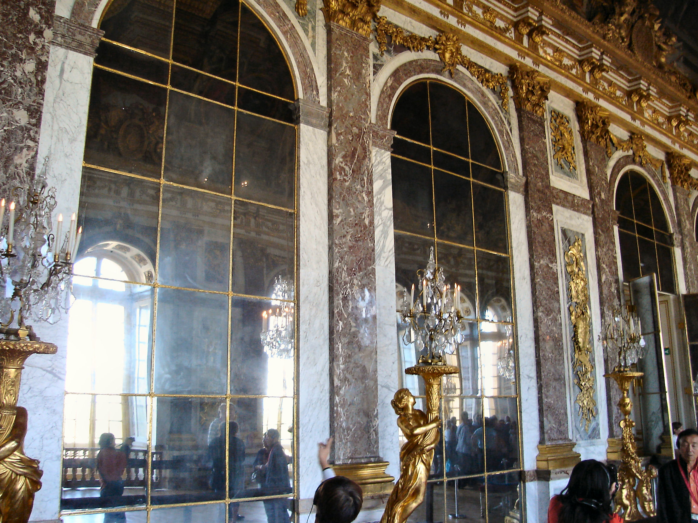 Hall of mirrors, Versailles